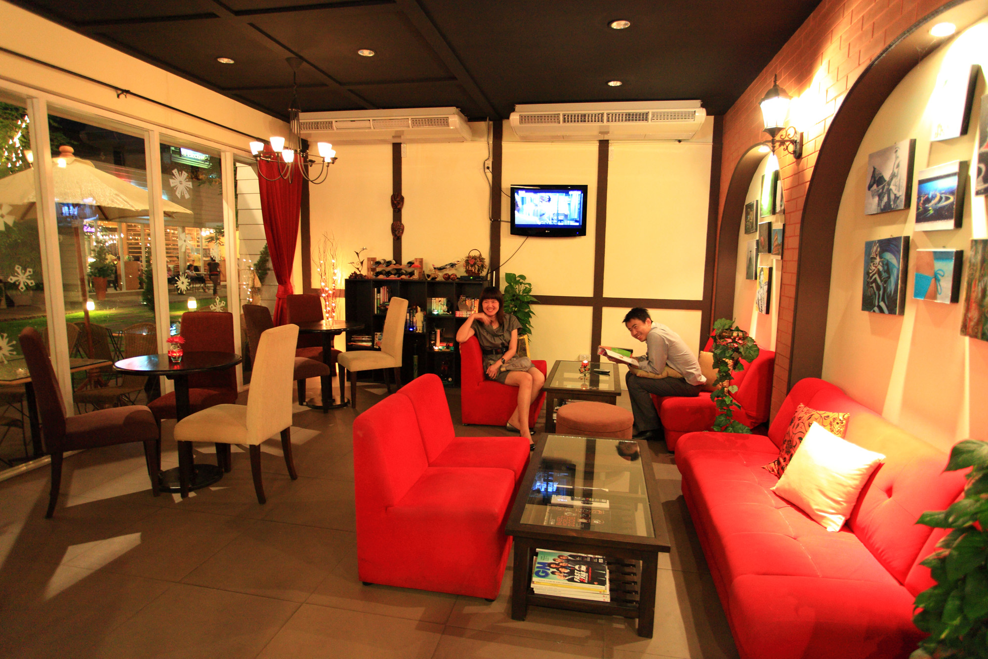 inside Yatata Bake&Beer shop